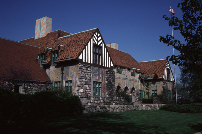 Front of the Midland County Courthouse, located at 301 W. Main Street in Midland, Michigan, United States. Built in 1925, it is listed on the National Register of Historic Places.